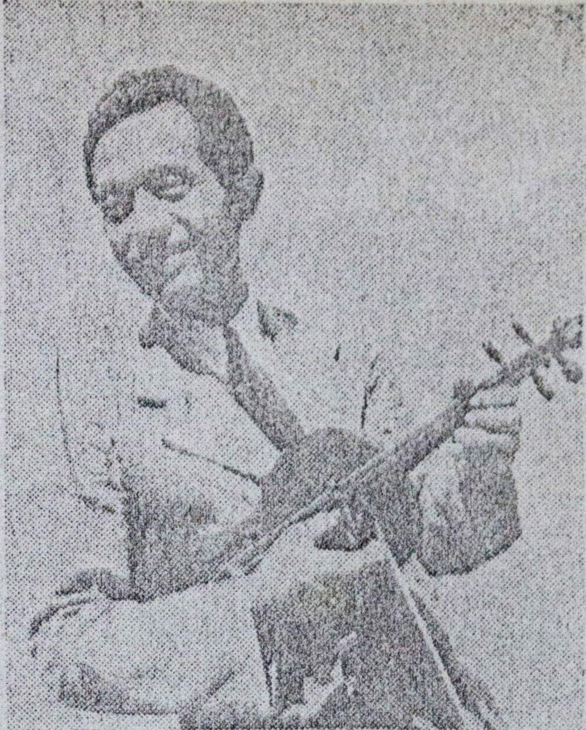 R Koesbini performing in Djantoeng Hati